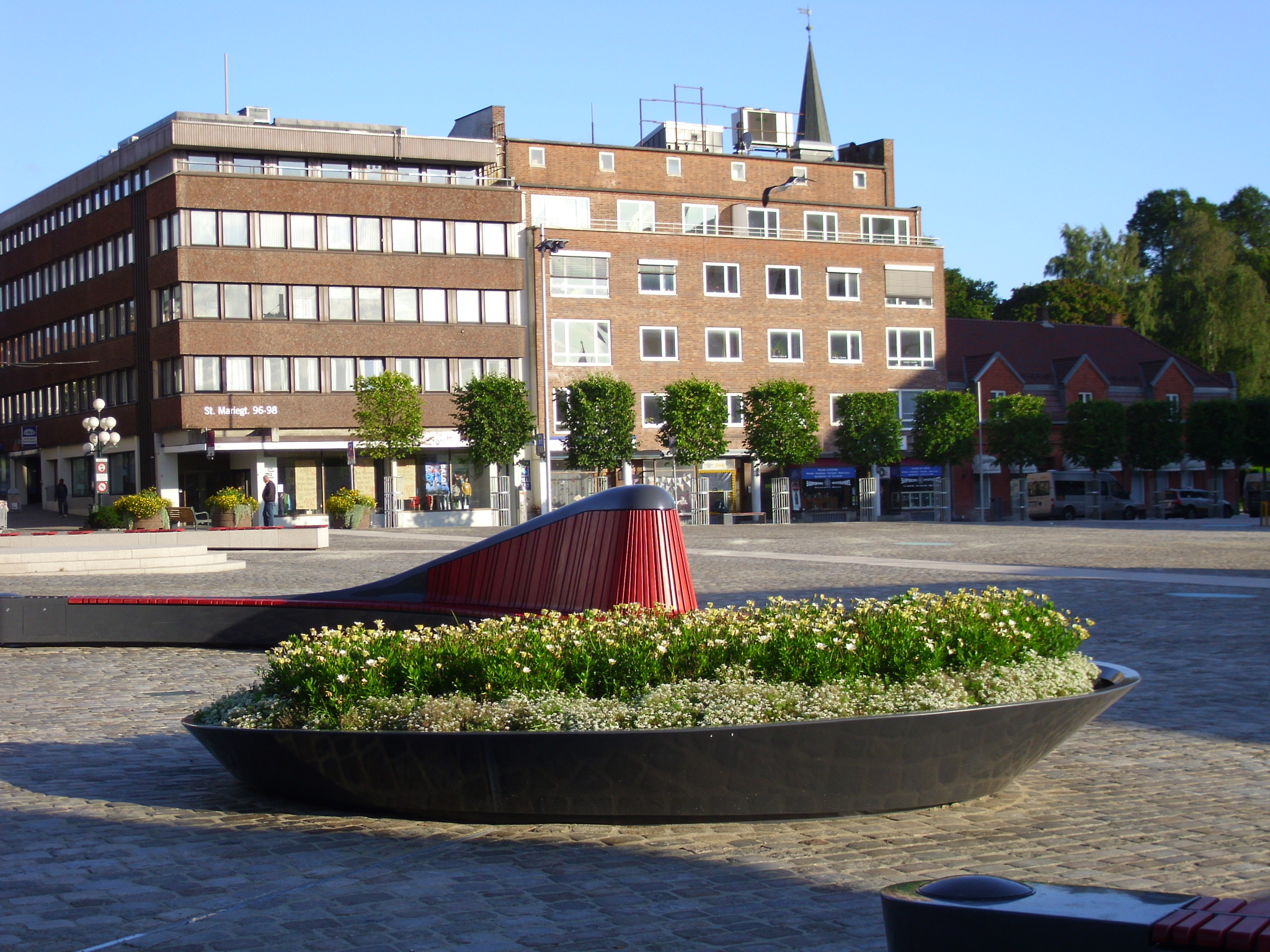 Market of Sarpsborg after the rebuilding in 2010/2011